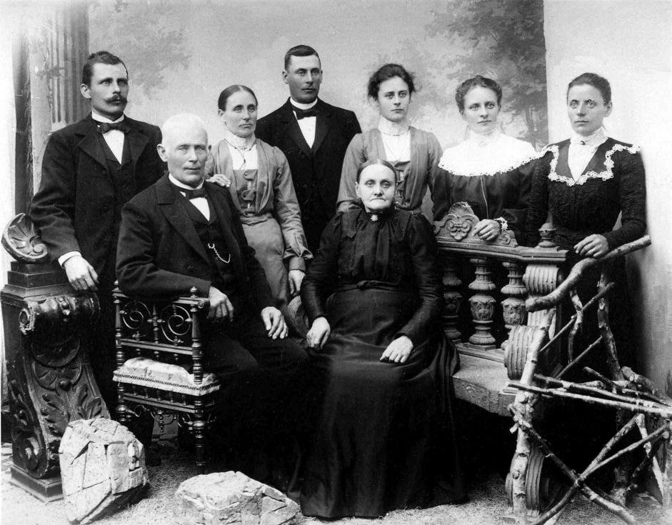 Kalles Carl Mattsson (1841-1912) with wife Näktergals Brita Andersdotter Mattsson (1841-1930) and their children Simeon, Amanda Andersson, Victor, Hilda (Ridderstedt), Thekla Jansson and Emma Lindén, as released by image owner FamSACPlace: Borlänge, Sweden